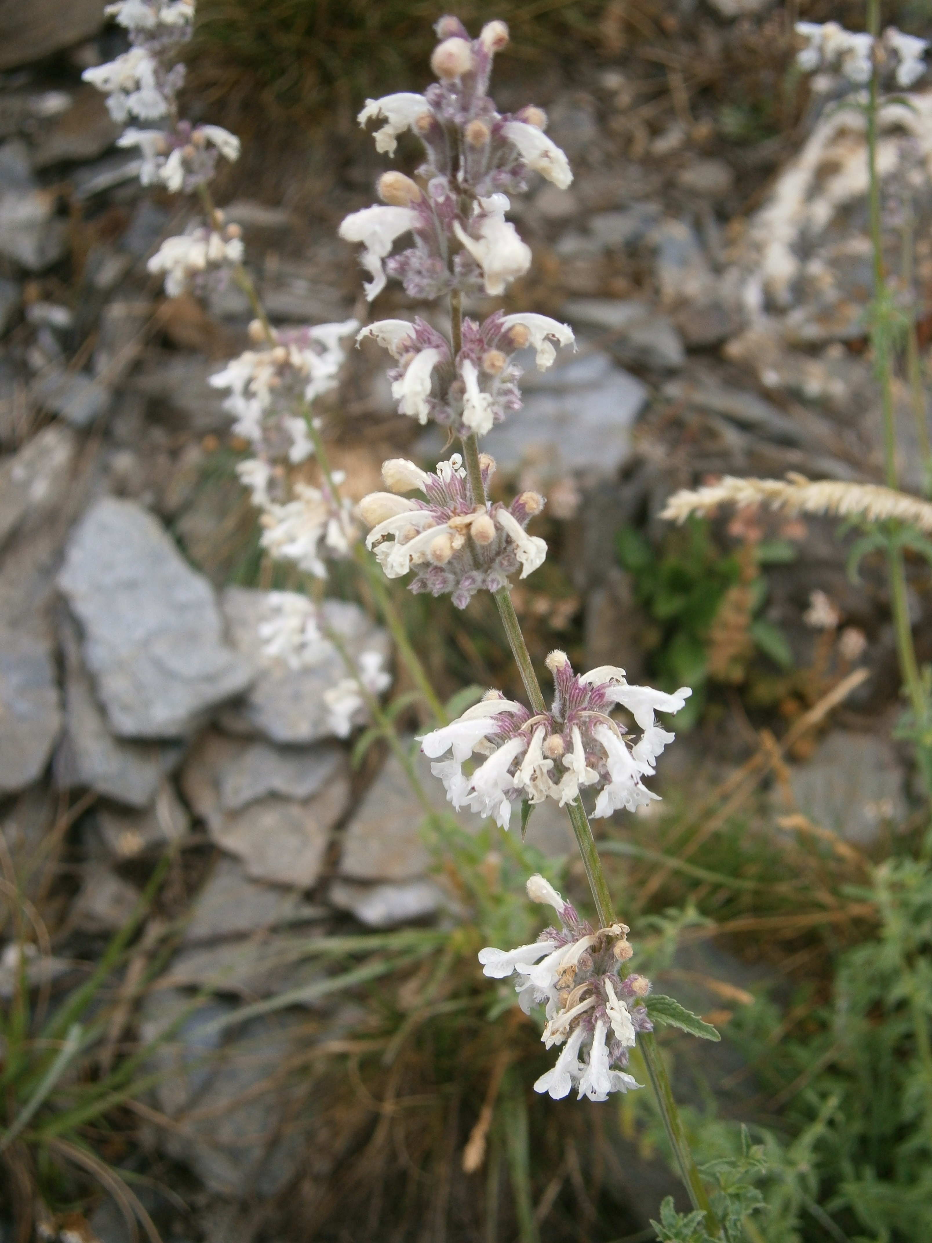 Nepeta nepetella